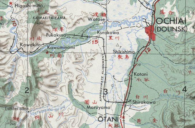 List from Eastern Siberia AMS Topographic Maps. Series N504, U.S. Army Map Service, 1947